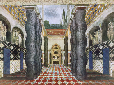 Scenery Design for the Imperial Palace, from The Martyr of St. Sebastian, c.1911. Собрание семьи Константиновичей, Париж